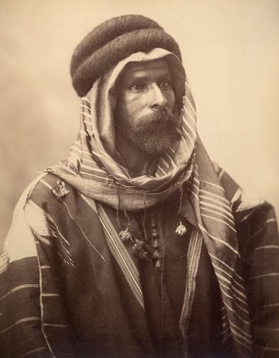 Sheikh of Palmyra. Albumen photograph from the 19 thcentury (Circa 1875) titeled: "The Sheik of Palmyra", most probably a studio portrait. The Sheikh of Palmyra was a popular figure with western travellers in Syria. Travel through the desert to Palmyra, invloved negotiations and special arrangements for the safety of travellers which involved the Sheikh of Palmyra and other leaders ofthe Bedouin tribes along that route. The small settled group of Bedouins served as hosts and guides for the adventurist tourists who ventured to Palmyra in those years.(